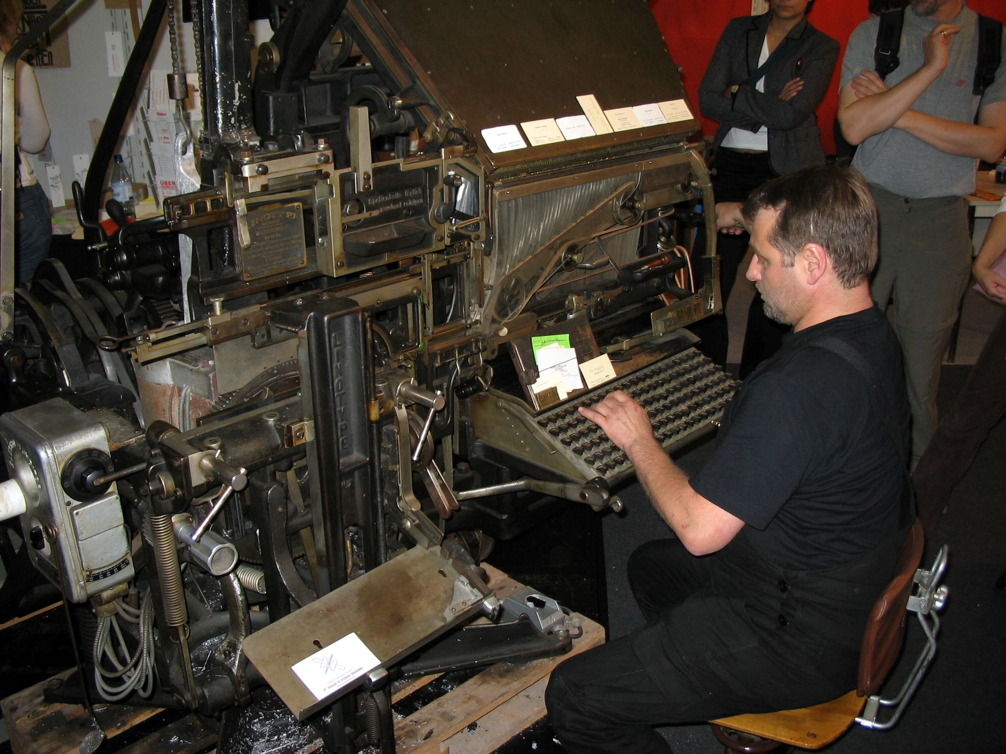 Linotype typesetting machine demonstration Own photo, taken at Frankfurt Book Fair 2005 Harald Kucharek, Karlsruhe